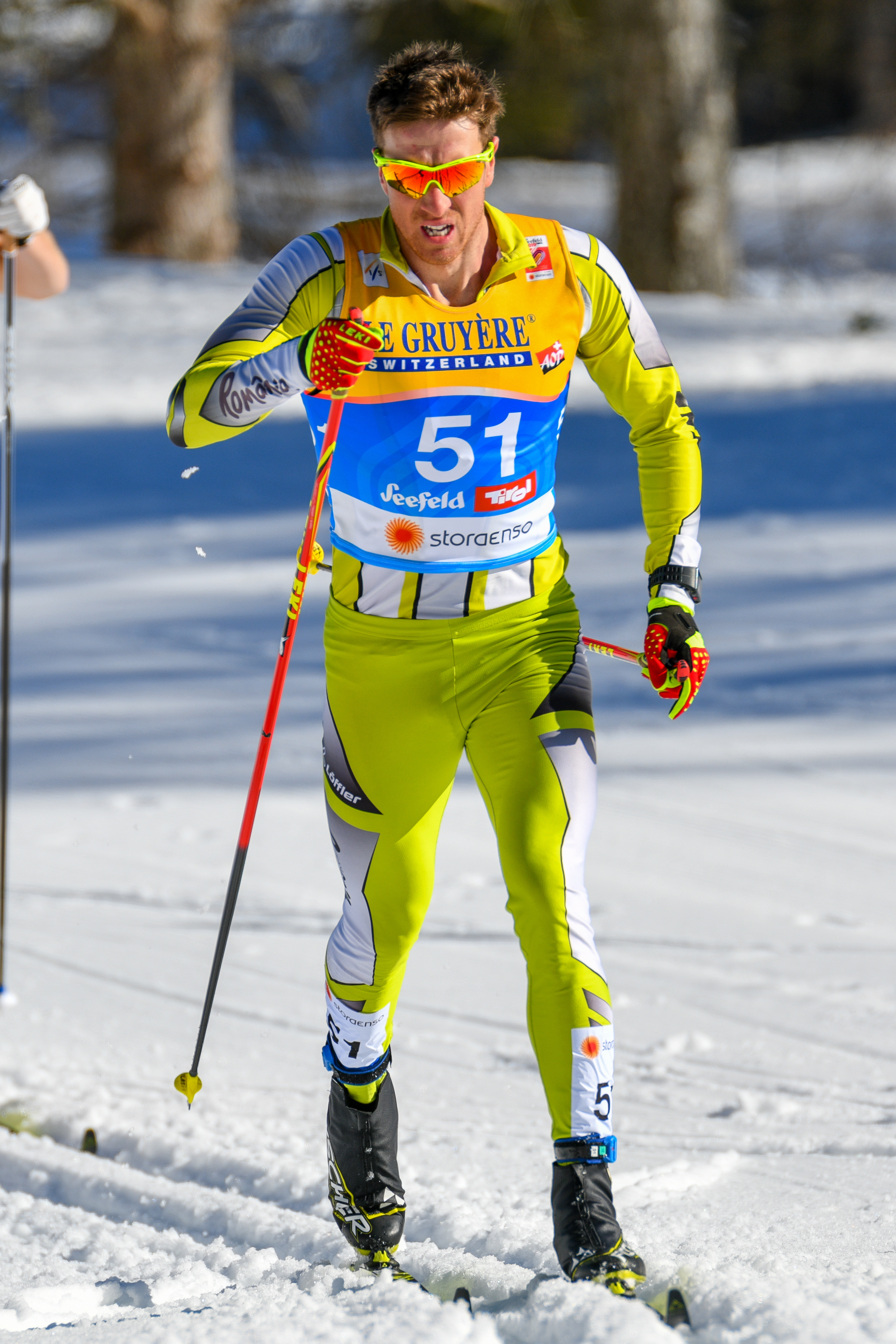 FIS Nordic Wolrd Ski Championships Seefeld 2019 - Men 15km Interval Start Classic. Picture shows Petrica Hogiu (ROU).